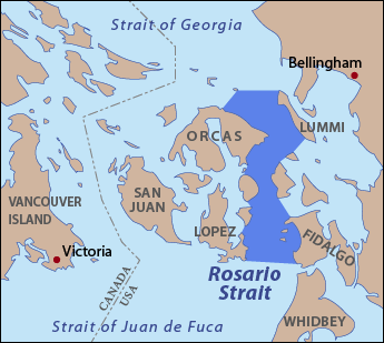 This is a locator map of Rosario Strait. I, Pfly, made it with ArcGIS, Adobe Illustrator, and Adobe Photoshop. Includes the colonial US-Canada border.